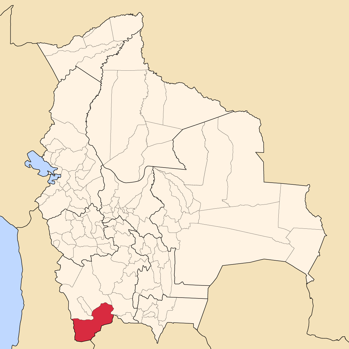 Map of Bolivia showing Sud Lípez province, Potosí